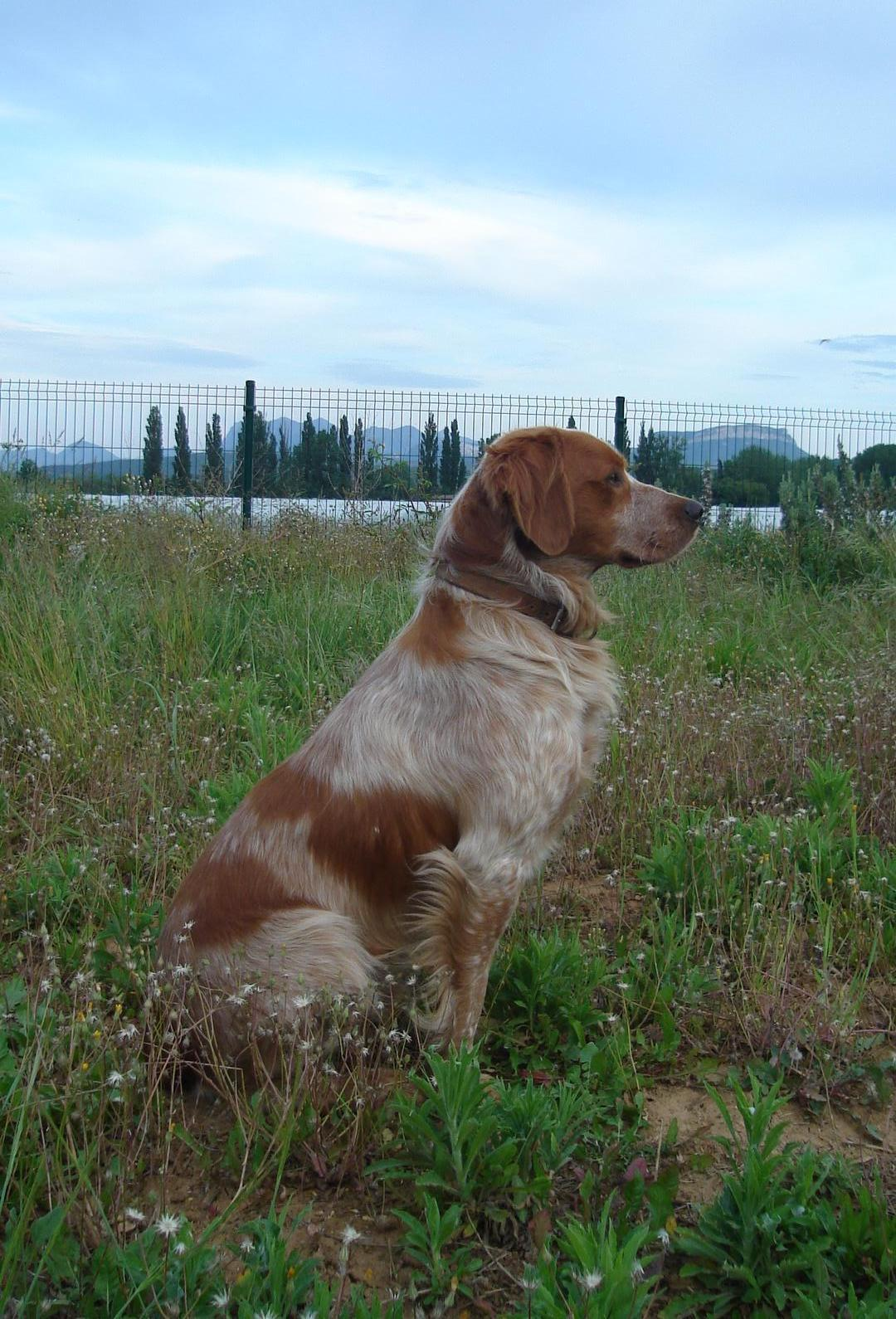 A britanny.